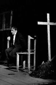 Tadeusz Kantor